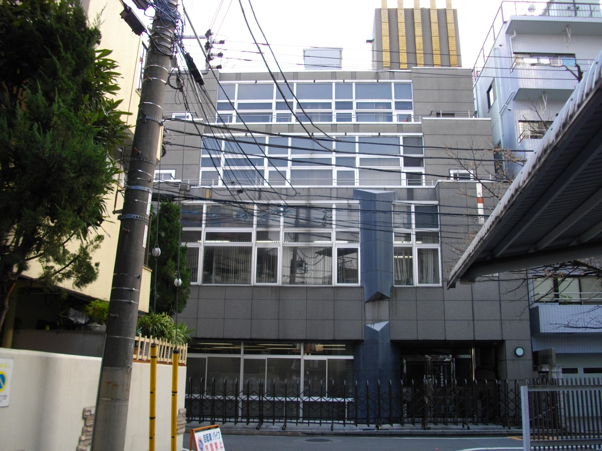 Jiyukokuminsha Head Office